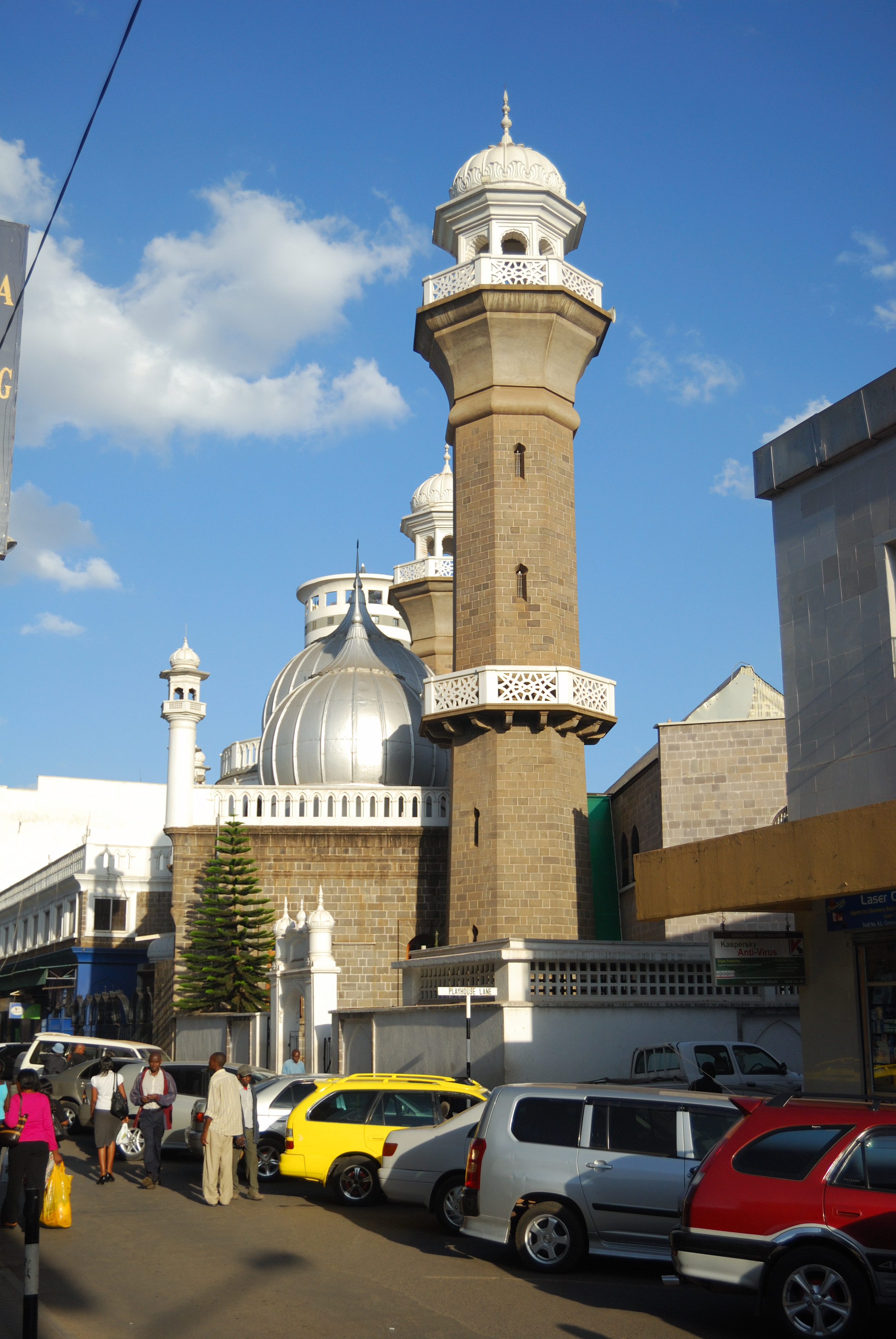 Jamia Mosque, Nairobi, Kenya